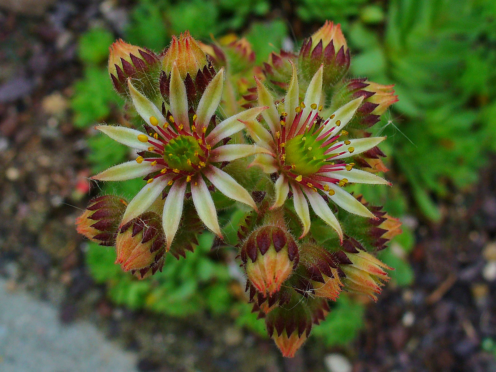 Inflorescence; Botanical Garden KIT, Karlsruhe, Germany.